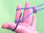 "The Magic Ring"